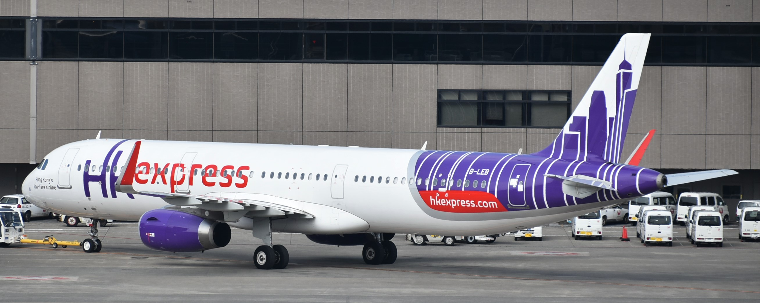 Airbus A321(SL) of Hong Kong Express Airlines at Tokyo Narita-NRT, Japan, 15/07/18.